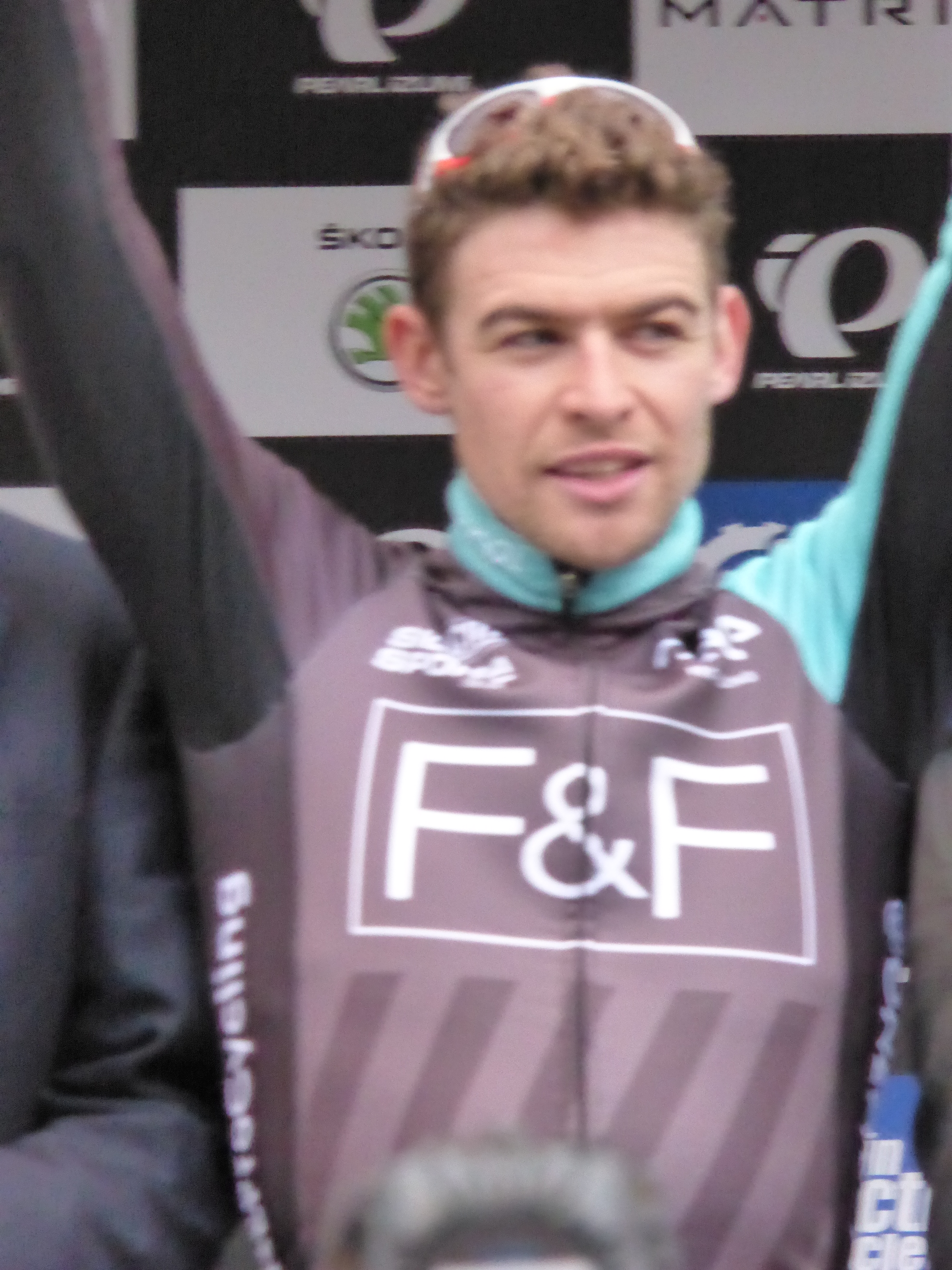 Chris Opie, after Round 4 of the Pearl Izumi Tour Series in Motherwell, on 26 May 2015